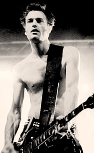 Karl Backman in concert with punk band AC4 2009.